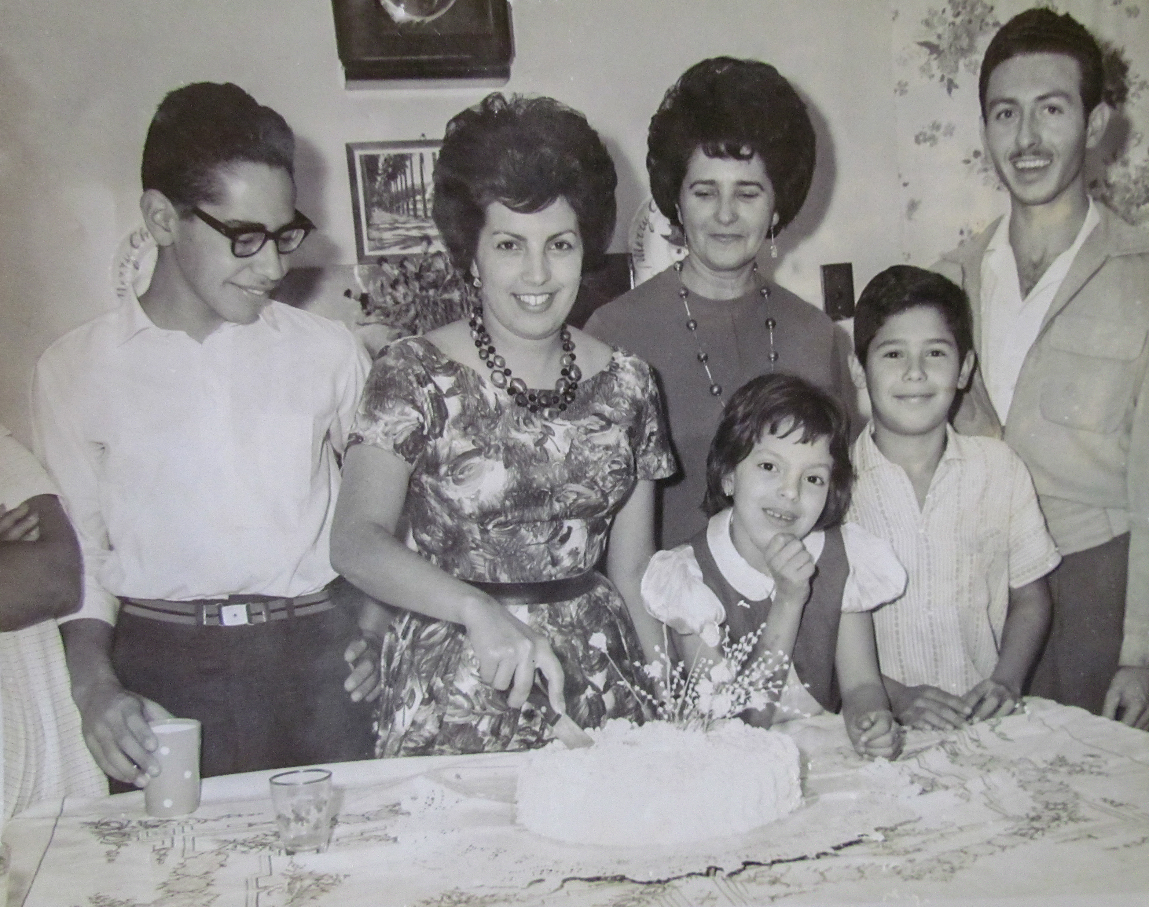 Birthday of Venezuelan Family 1961, Los Teques, Miranda State